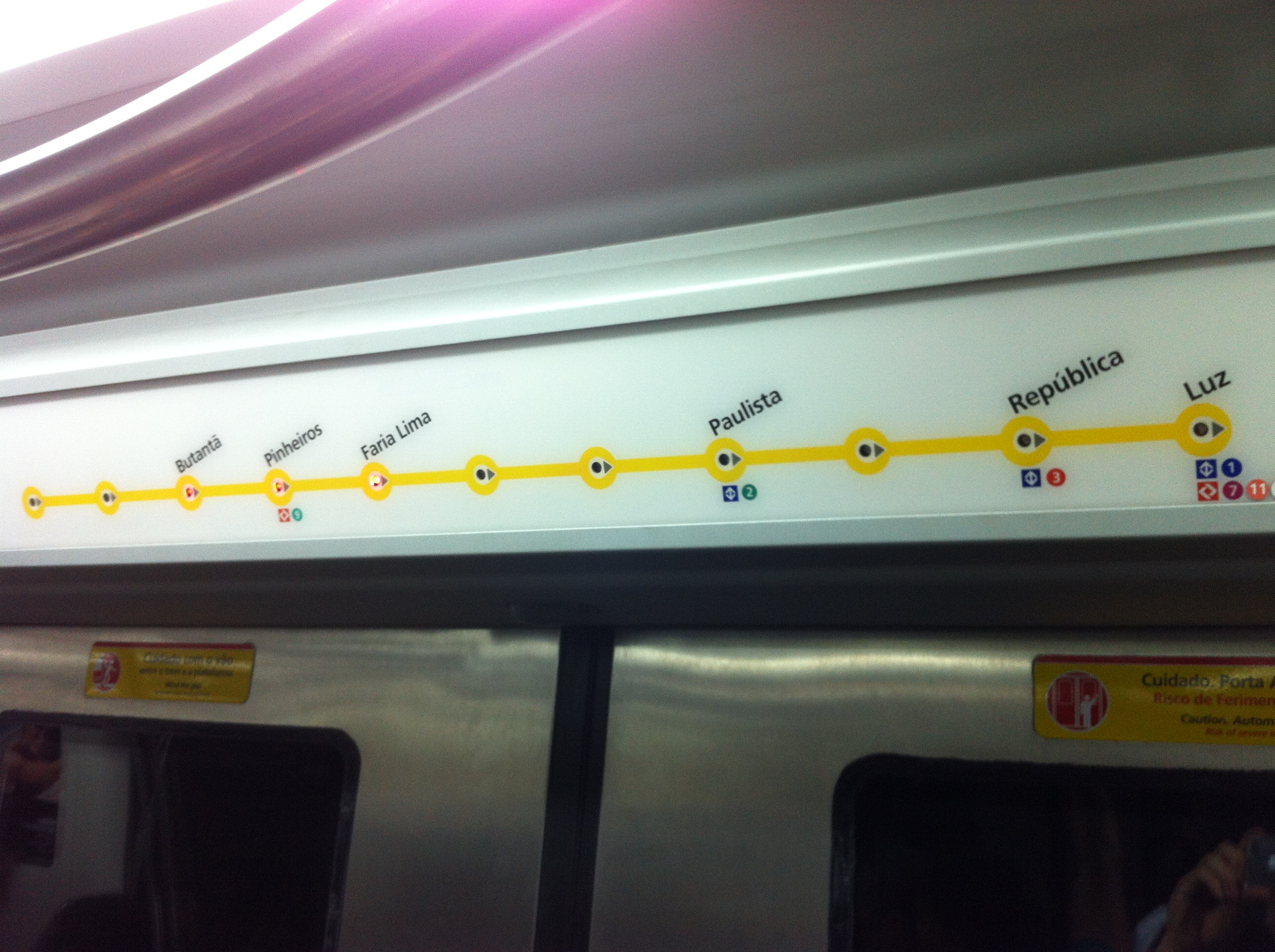 Sao Paulo Metro's line 4 is ready to add more stops - this in car line map has "stops" for five yet to open stations. Travelling between Pinheiros and Paulista you can see at least one empty station shell along the line.